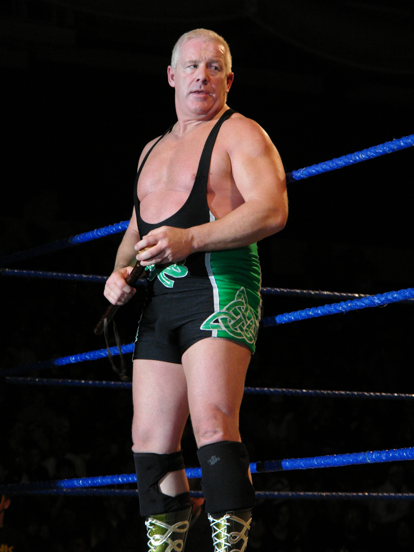 Fit Finlay at a SmackDown live event. Oshkosh, WI.